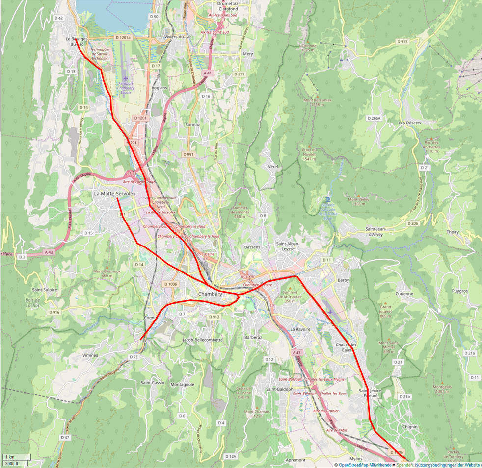 Former route of Tramway de Chambéry superimposed onto OpenStreetMap map